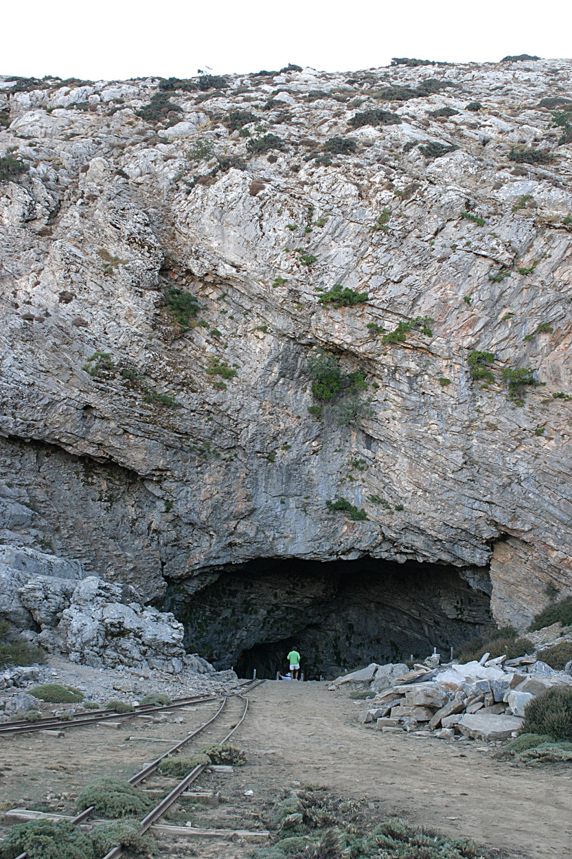 The Idian Cave, Crete (Greece), with a person in the picture to show scale.